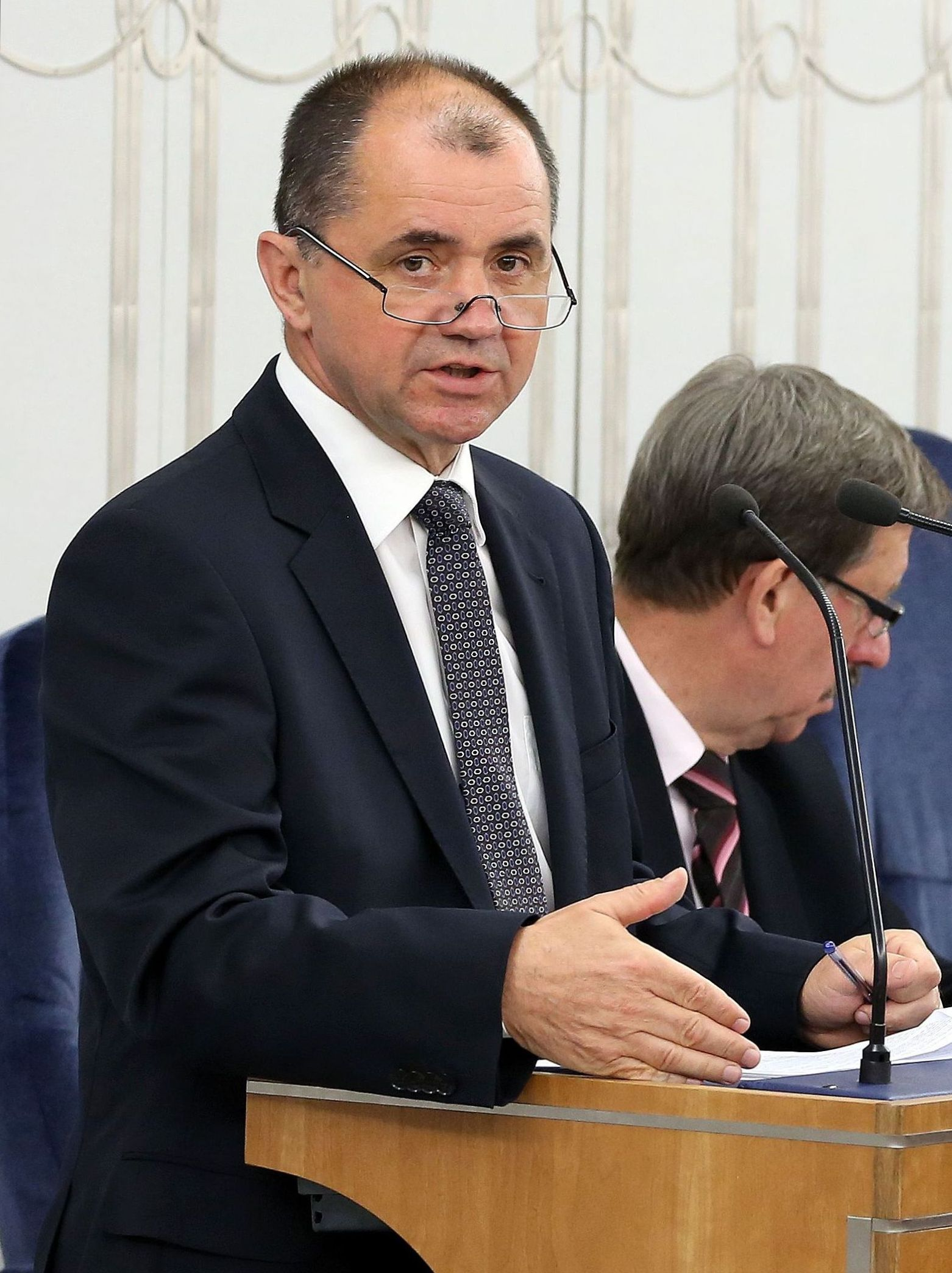 Secretary of state at the Ministry of Infrastructure and Development Zbigniew Rynasiewicz. 60th sitting of the Polish Senate